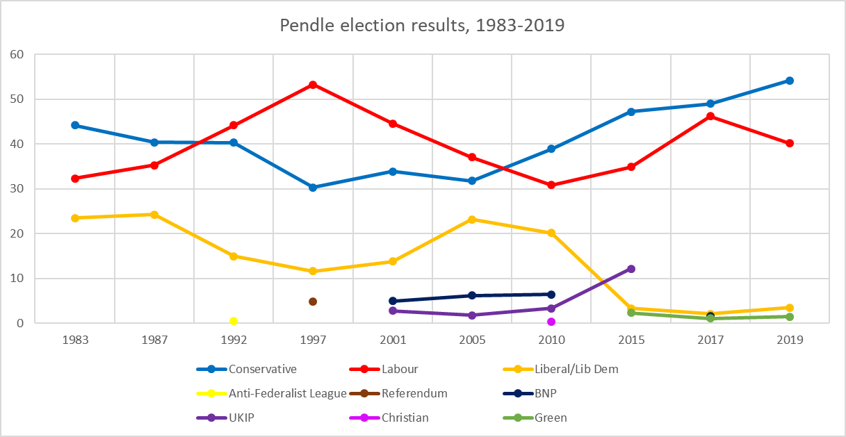 Graph showing UK general election results for Pendle from 1983 to 2017.